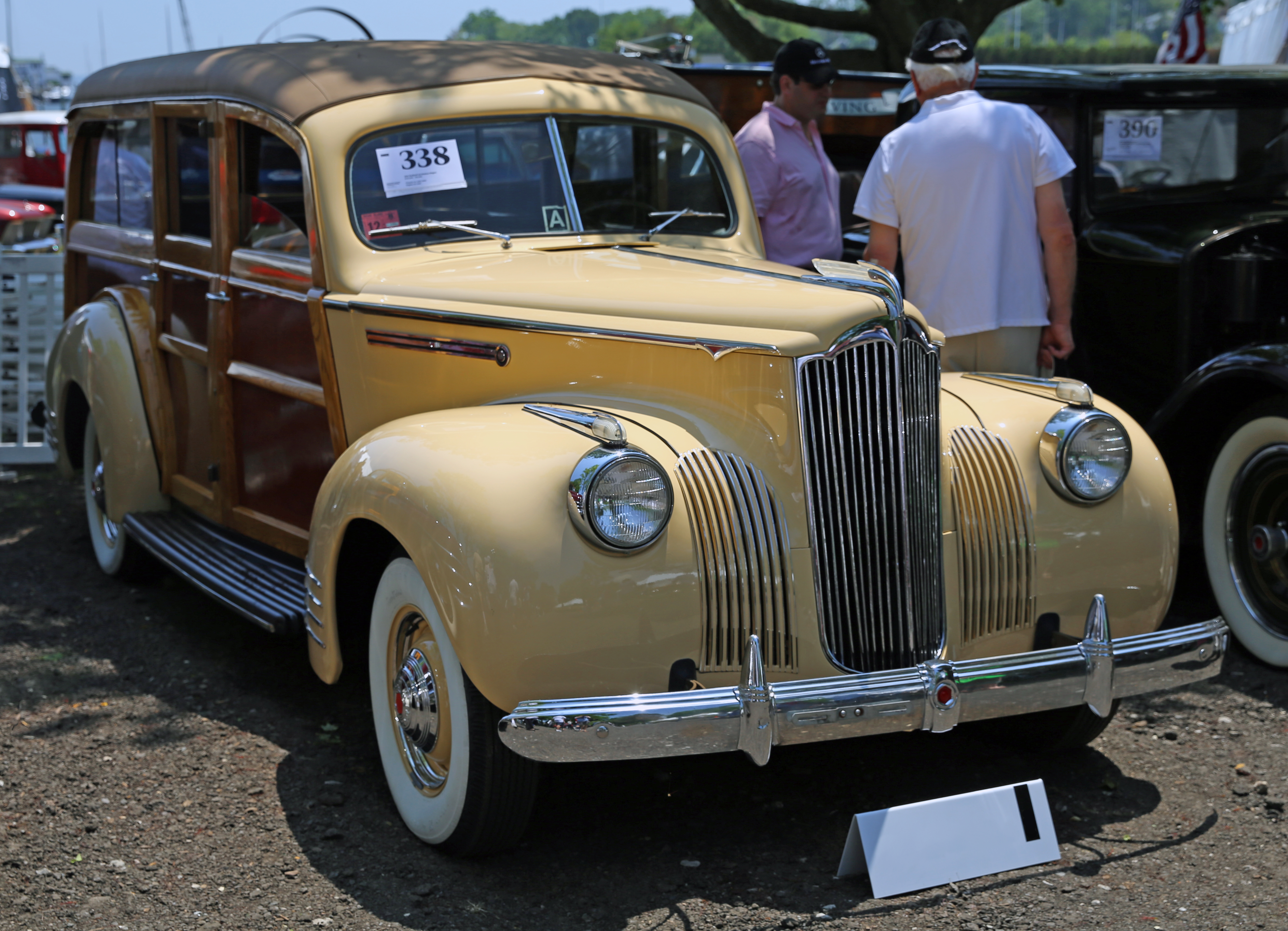 1941 Packard 110 Deluxe woody station wagon with bodywork by Hercules at the Bonhams auction attached to the 2013 Greenwich Concours d'Elegance. Chassis number 1483-2080, engine number 2350.